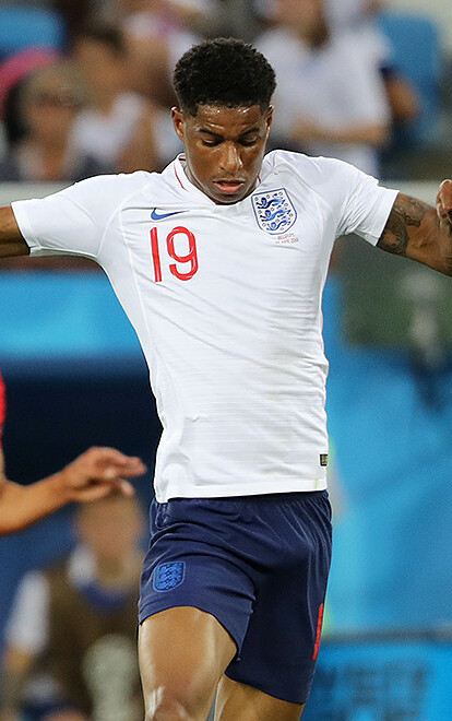 Marcus Rashford playing for England against Belgium at the 2018 FIFA World Cup